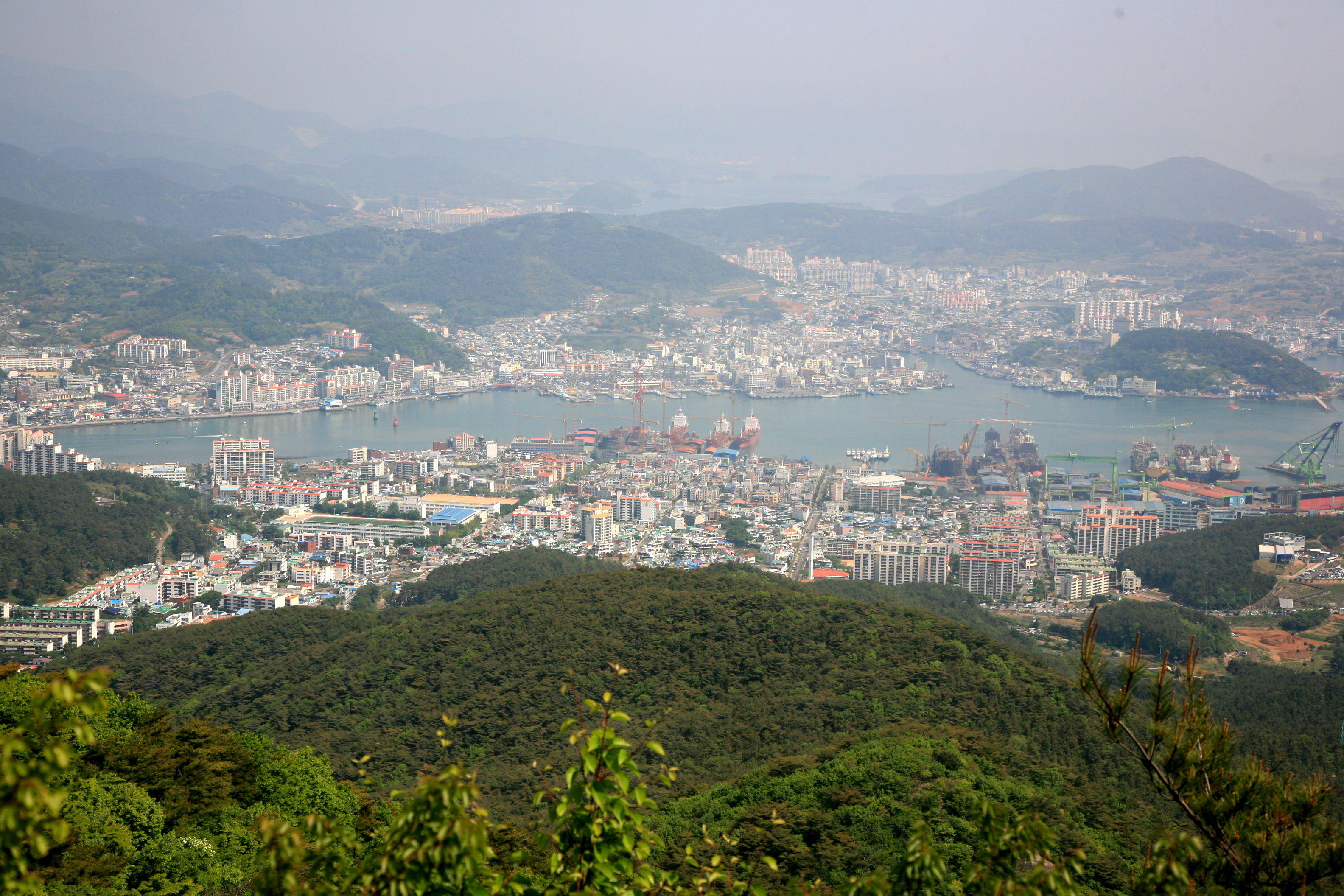 Cityscape of Tongyeong, South Gyeongsang province, South Korea from Hallyeo Waterway Observation dock.